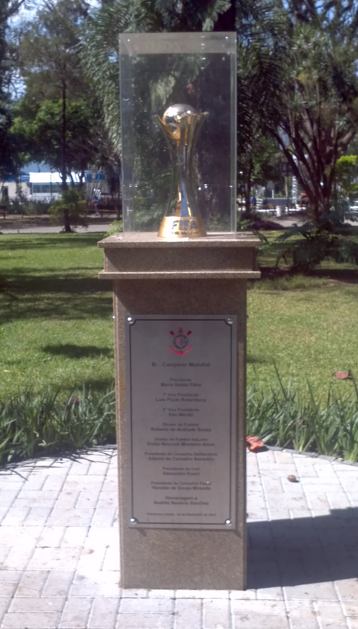 BI 2012 World Cup, in the gardens of Parque São Jorge, São Paulo